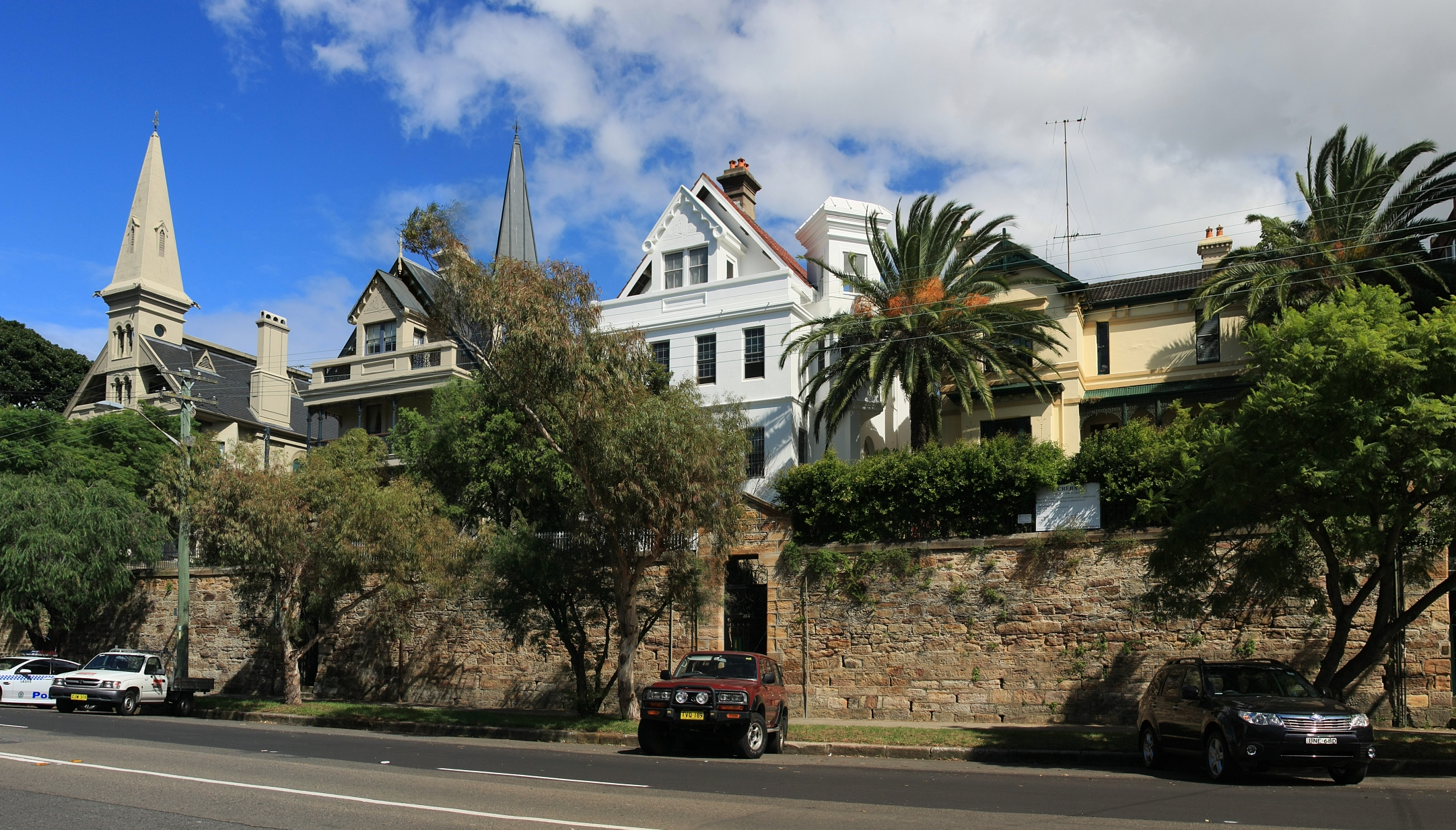 Historical houses in the Johnston street group